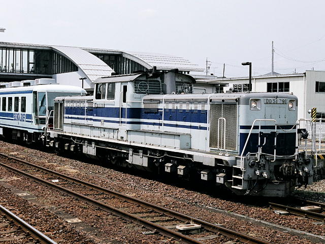 JR Central Class DD51-700 diesel Locomotive number DD51 791 in Euro Liner livery at Mino-ota Station